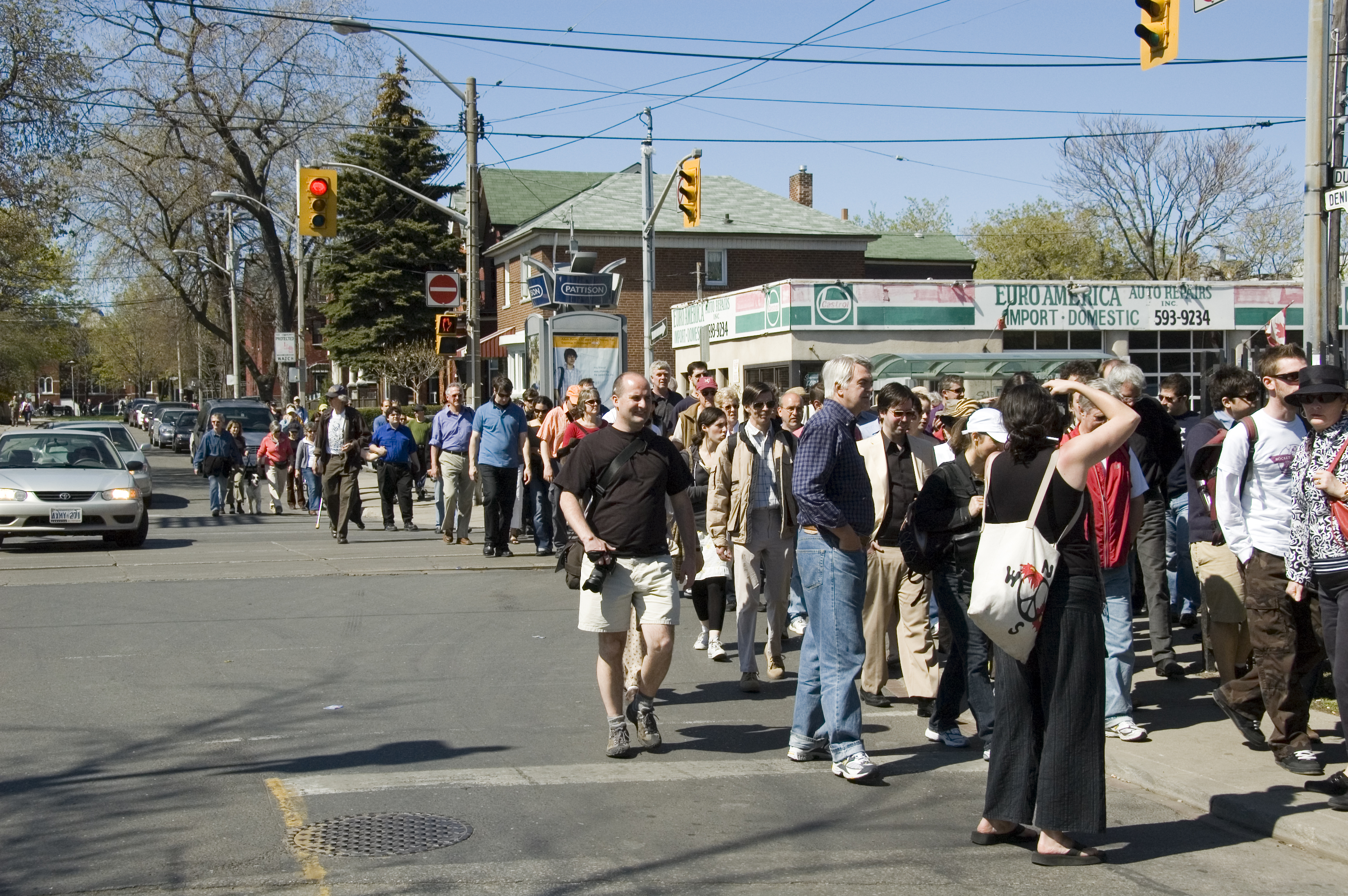 Walking from Kensington to Alexandria Park